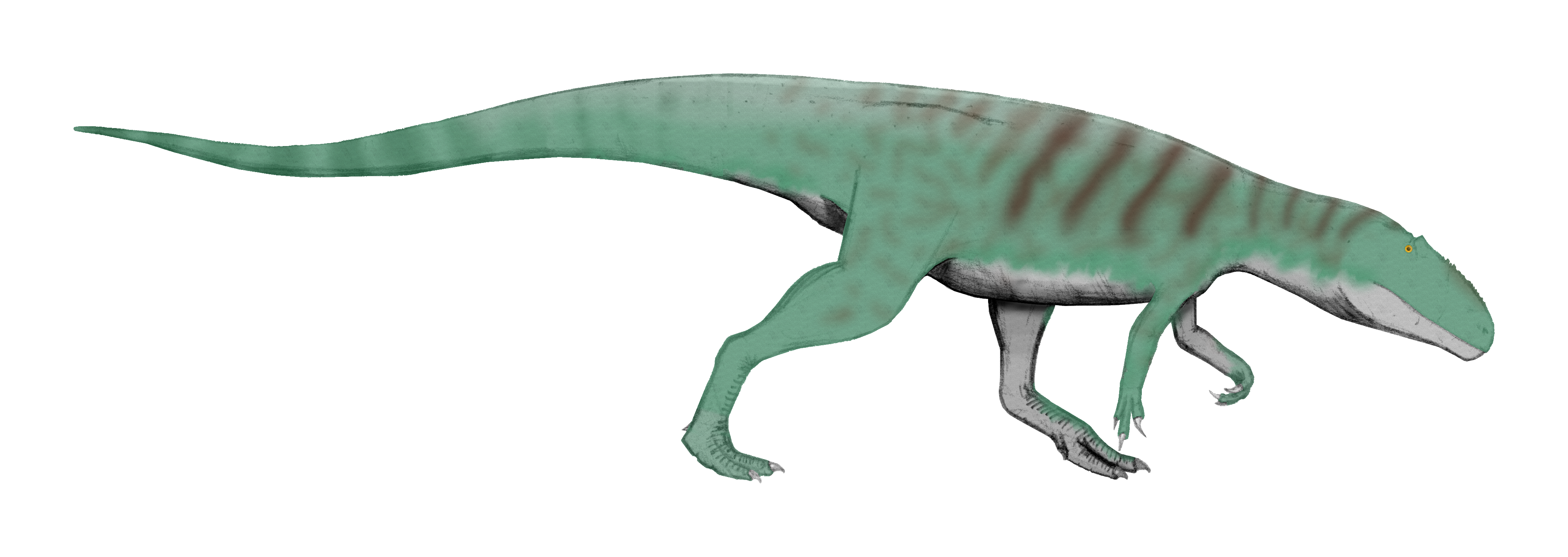 Life restoration of Kaijiangosaurus lini, a Chinese theropod dinosaur. Based mainly on several of Paul's skeletals, especially his Sinraptor.